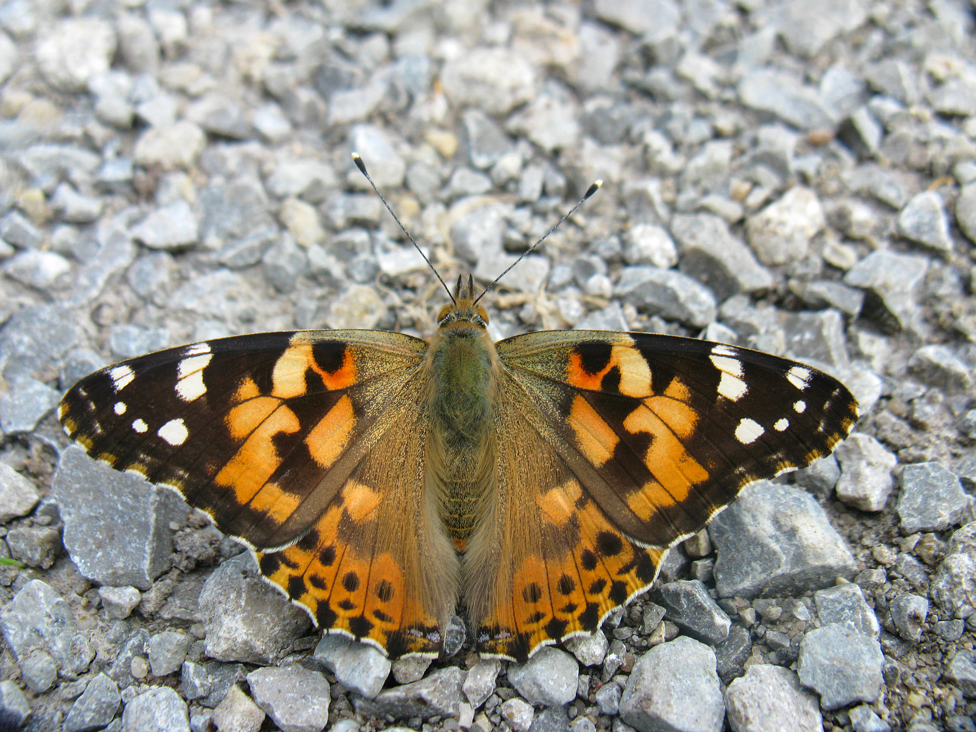 Painted lady (Vanessa cardui) in Southern Germany, 2009.